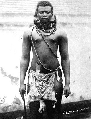 Photo of Dinuzulu with wood badge beads during Zulu civil war